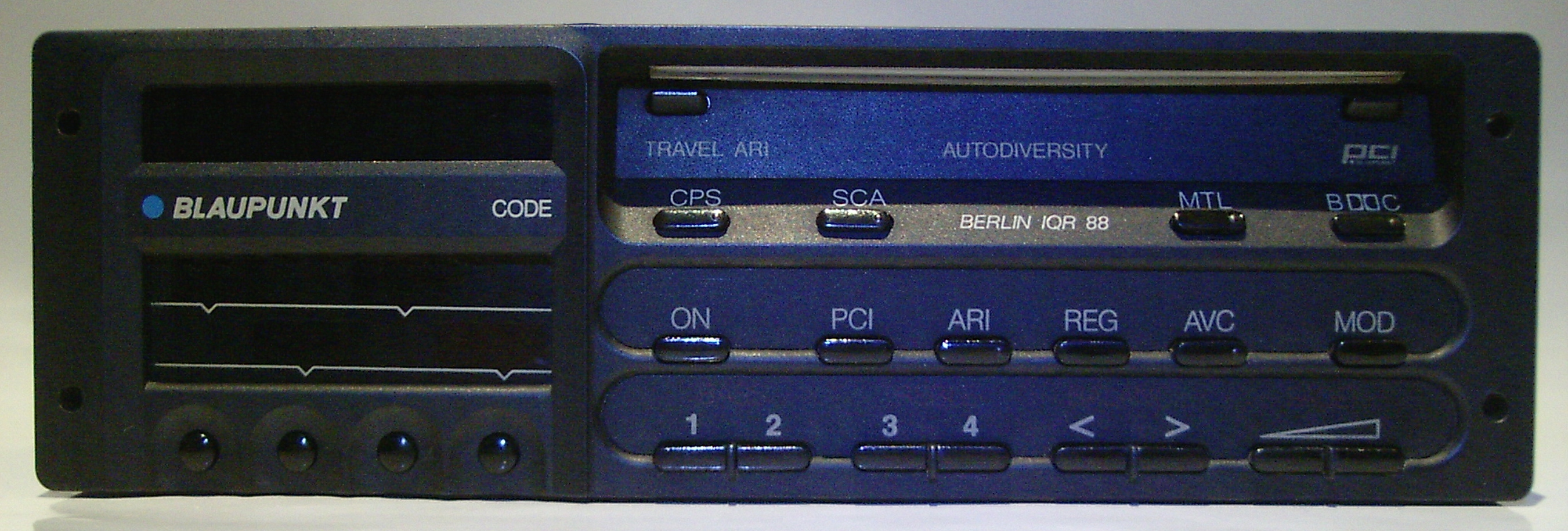 Blaupunkt Berlin IQR 88